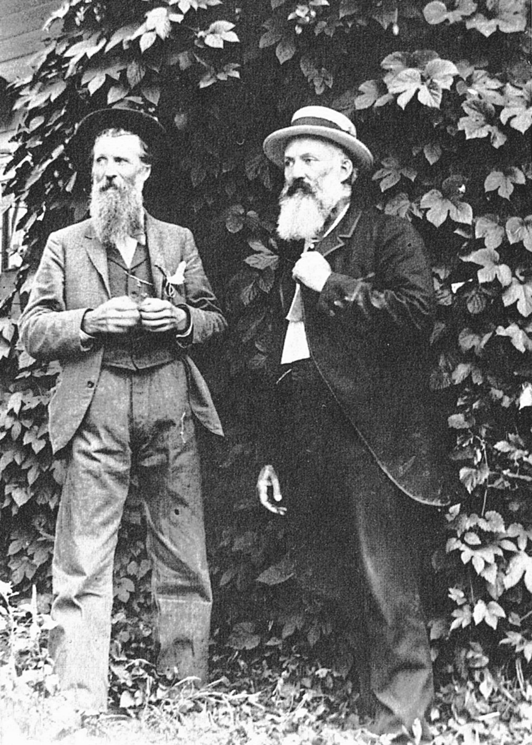 Photograph of John Muir and T.P. Lukens ouside Crocer's Station, Yosemite, California 1895. Photograph by Celia Crocker.